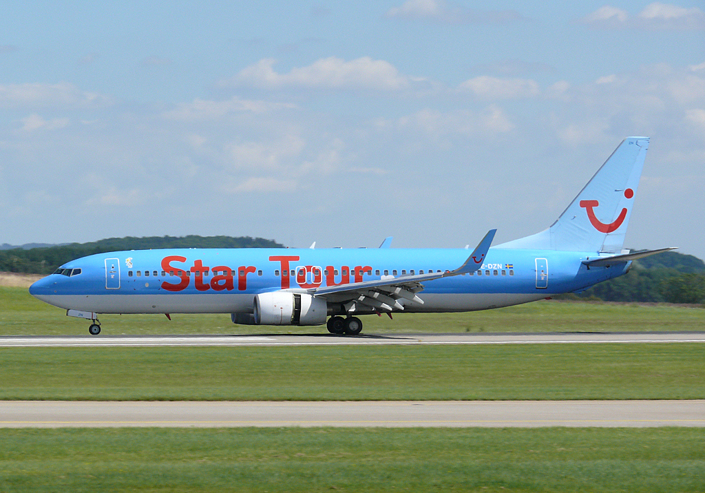 A Boeing 737-800 (SE-DZN) of TUIfly Nordic (Star Tour) is here seen revering on Malmö Airport's runway 35.